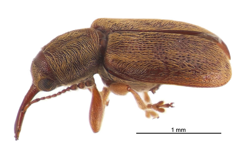 Lateral view of a specimen of Rhinorhynchus rufulus photographed by Landcare Research New Zealand Ltd.